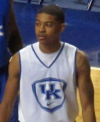 Kentucky Wildcats men's basketball player Derek Willis at the team's 2014 Blue-White scrimmage at Rupp Arena in Lexington, Kentucky